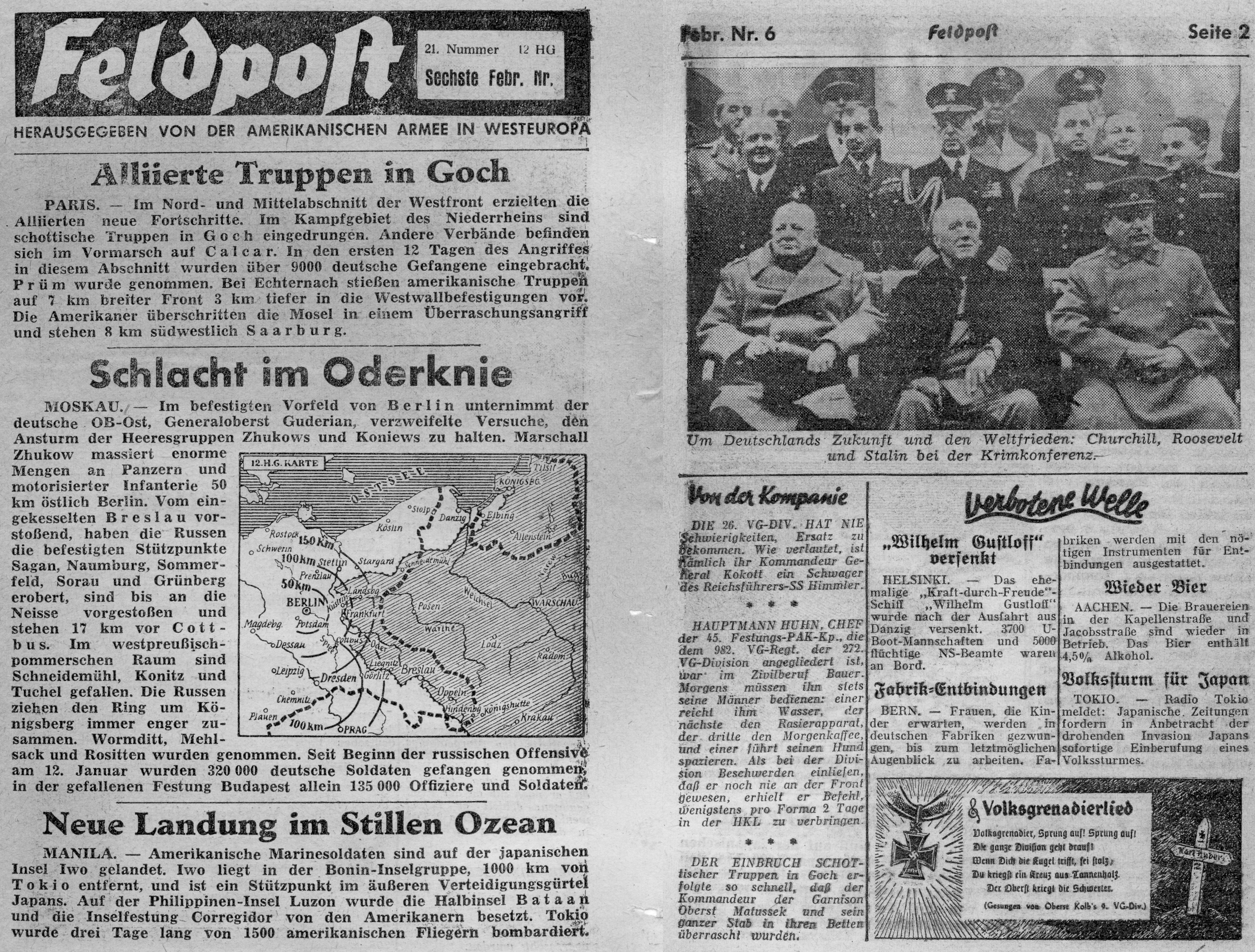 Flyer "Feldpost" from "Amerikanischen Armee in Westeuropa" Number 6, February 1945 Legal disclaimer This image shows (or resembles) a symbol that was used by the National Socialist (NSDAP/Nazi) government of Germany or an organization closely associated to it, or another party which has been banned by the Federal Constitutional Court of Germany. The use of insignia of organizations that have been banned in Germany (like the Nazi swastika or the arrow cross) are also illegal in Austria, Hungary, Poland, Czech Republic, France, Brazil, Israel, Ukraine, Russia and other countries, depending on context. In Germany, the applicable law is paragraph 86a of the criminal code (StGB), in Poland – Art. 256 of the criminal code (Dz.U. 1997 nr 88 poz. 553).